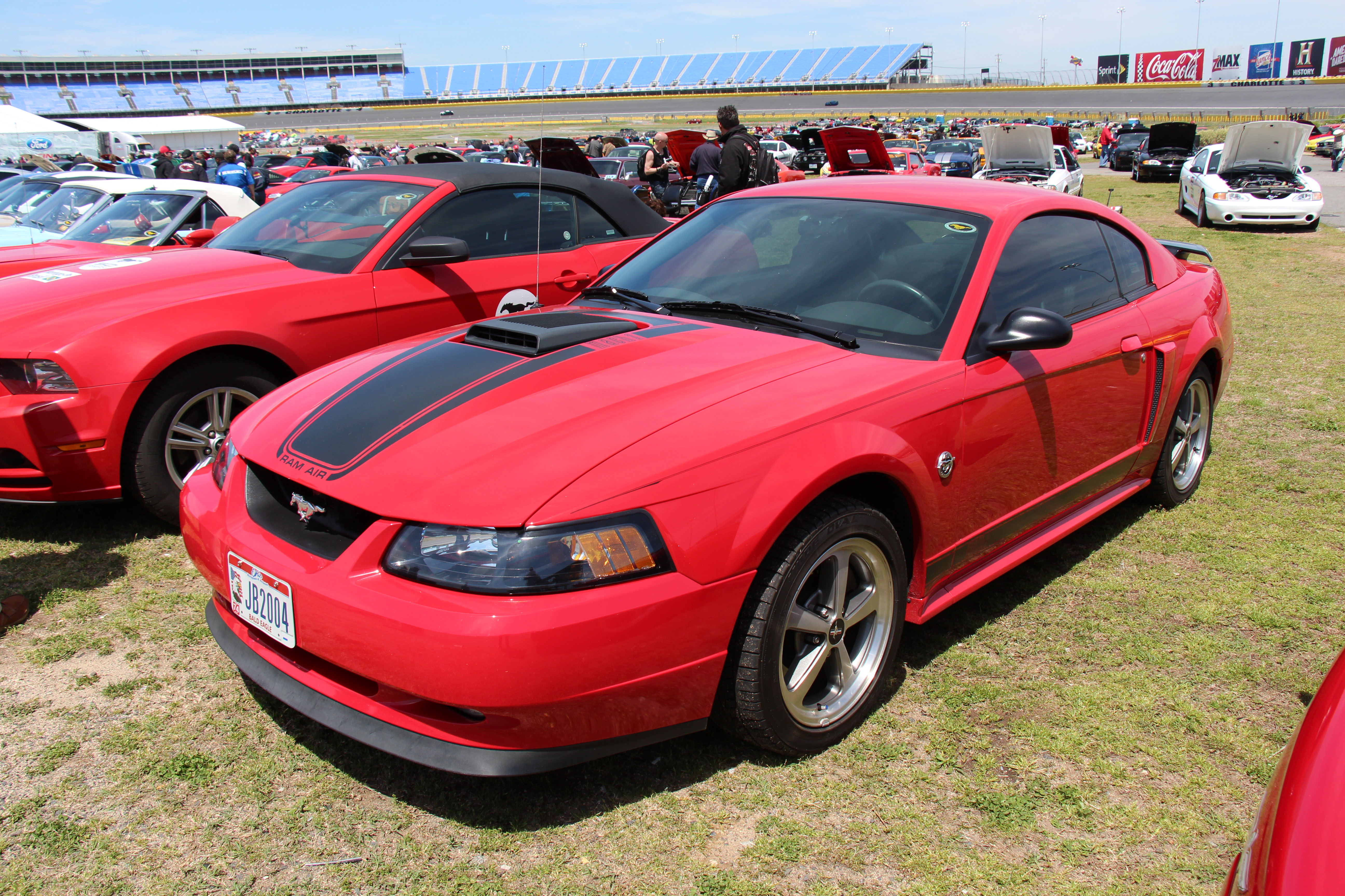 Torch Red. An all new 4th generation Mustang, the SN-95, was introduced in 1994, the notchback and hatchback were gone, replaced by a swoopier style coupe, a convertible was also available. The 1999 facelift saw a tougher look with sharper contours. The base model got the 3.8 V6 and the GT, the 260hp modular 4.6. Also available was the high performance SVT Cobra, 240hp 5.0 V8. The Mach 1 was introduced in 2003, it got 305 hp and revised suspension, Shaker scoop, Mach1 decals set the hood, chin spoiler, rear-spoiler, Magnum 500 style wheels, and a redesigned C-pillar Photographed at the 50th Anniversary of the Mustang celebrations at the Charlotte Motor Speedway, April 2014